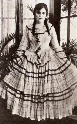 American actress Florence McLaughlin (1898 – 1972), who starred in Josh Binney two reel comedy short films, on page 31 of the May 25, 1918 Exhibitors Herald.